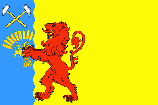 Flag of Novokubansky rayon, Krasnodar Territory, Russia